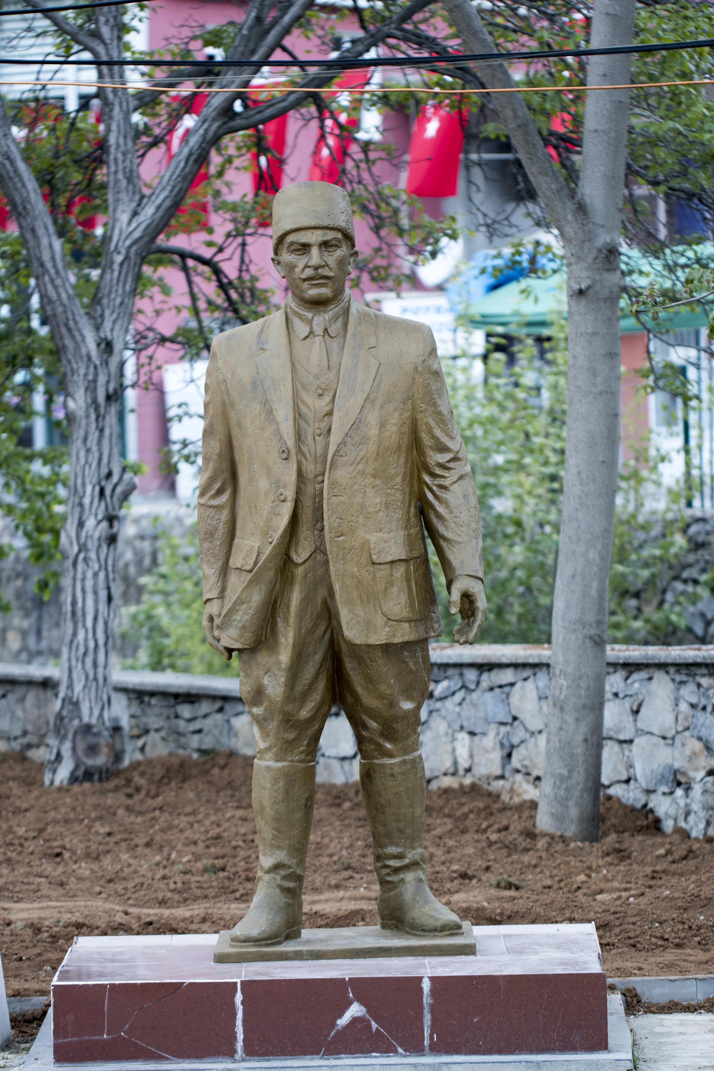 Sculpture of Saim Bey in Saimbeyli - Adana, Turkey.